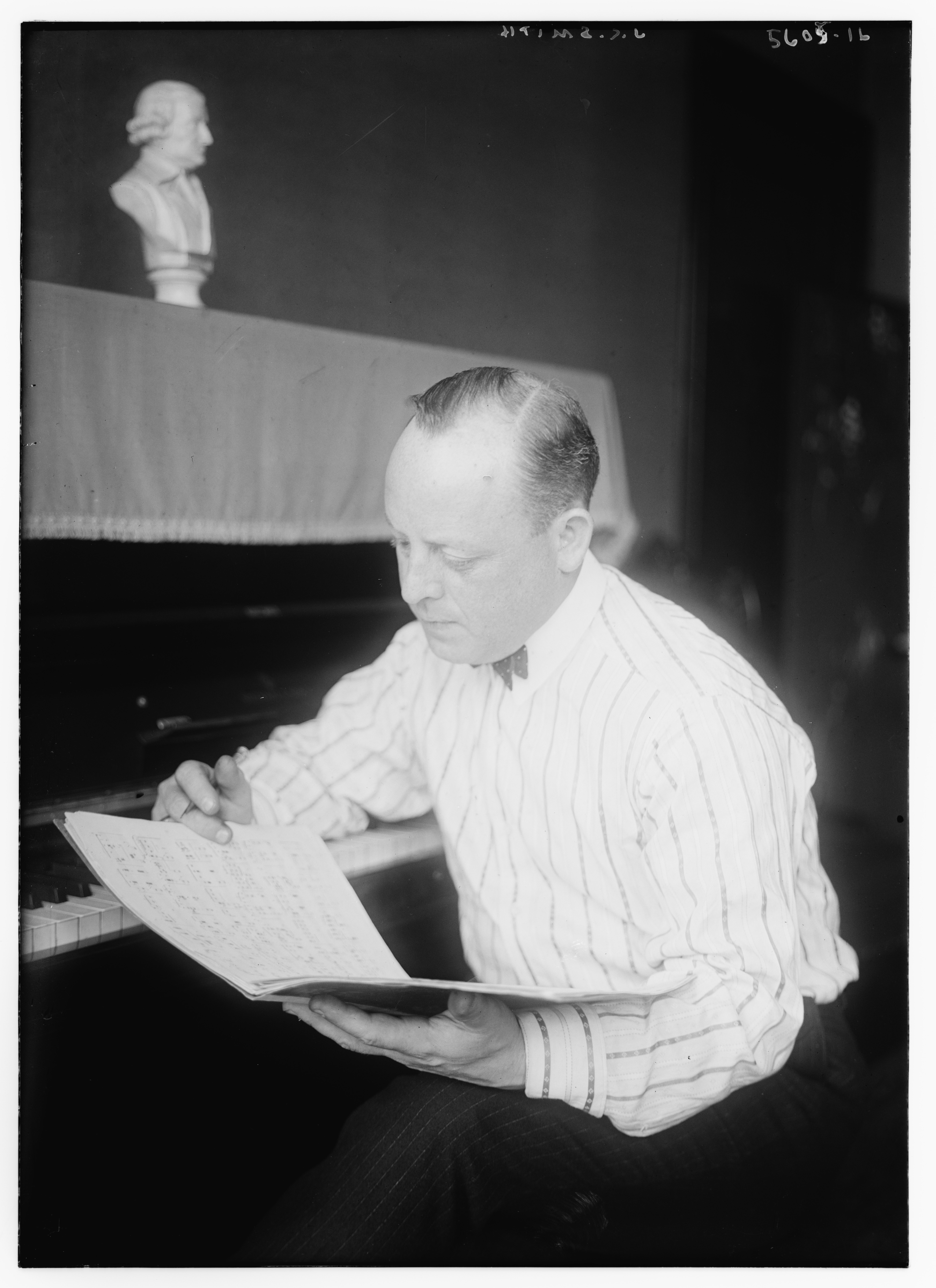 Title: J.C. Smith [piano/composer] Abstract/medium: 1 negative : glass ; 5 x 7 in. or smaller.